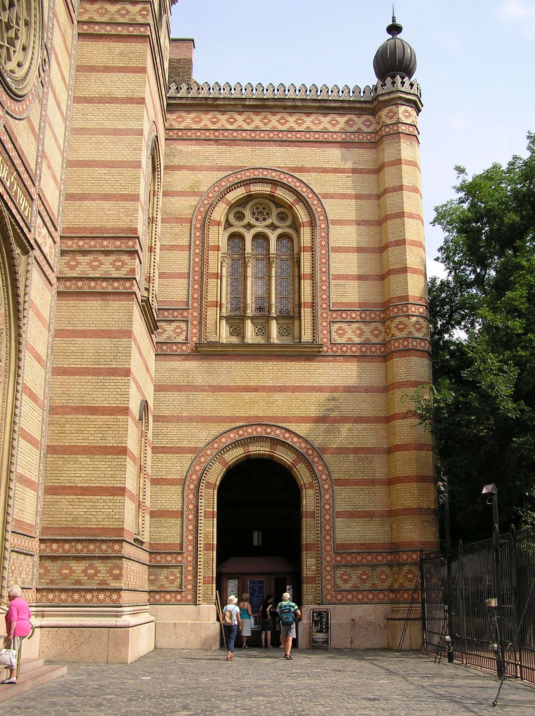 Dohány Street Synagogue (hungarian Dohány utcai zsinagóga) or Great Synagogue (hungarian Nagy zsinagóga), Budapest, Hungary